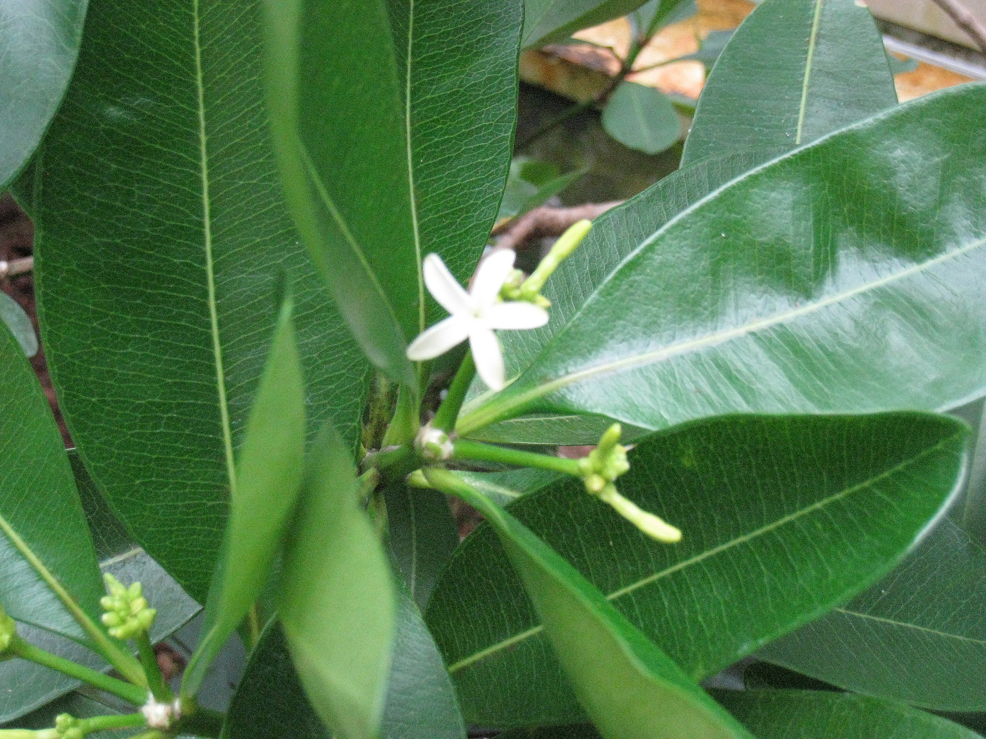 Specimen in cultivation at the Botanical Garden, University of Copenhagen, Denmark.